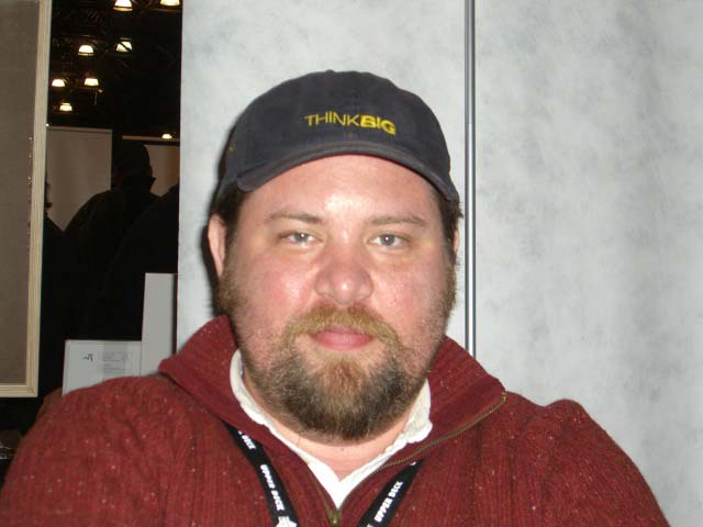 Comic book creator Tommy Lee Edwards at the en: New York Comic Convention in Manhattan, April 20, 2008. Photo by Luigi Novi. This photo may be used and modified, for any purpose, only if the photographer is visibly credited in each instance in which it is used. (See licensing information below.) For more information on my photos, you can contact me here.